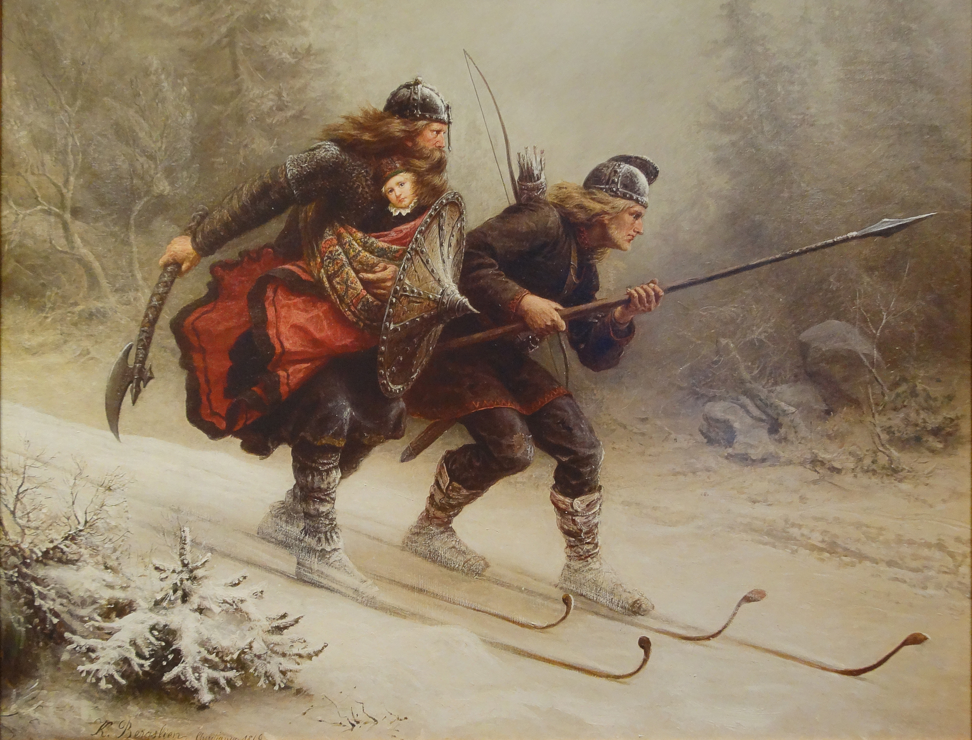 Depiction of Birkebeiner skiers carrying Prince Haakon to safety during the winter of 1206 has become a national Norwegian icon. The prince grew up to be King Haakon IV whose reign marked the end of the period known as the Civil war era in Norway, foto©: O. Væring Eftf. AS”Oslo/Norway